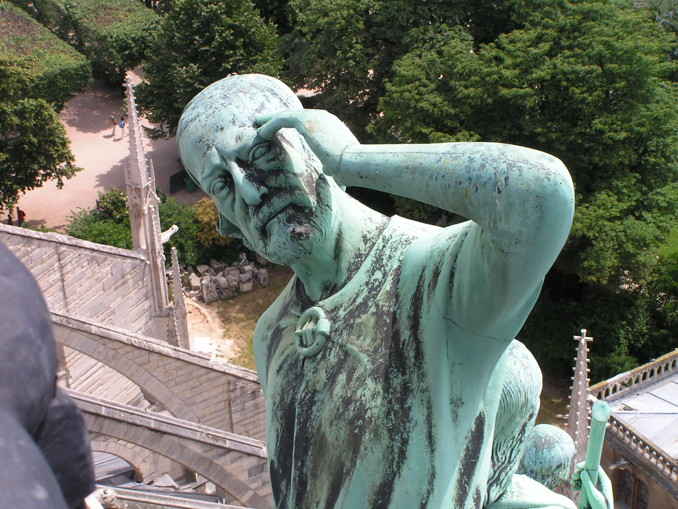 Notre Dame de Paris, Île de la Cité in Paris, France